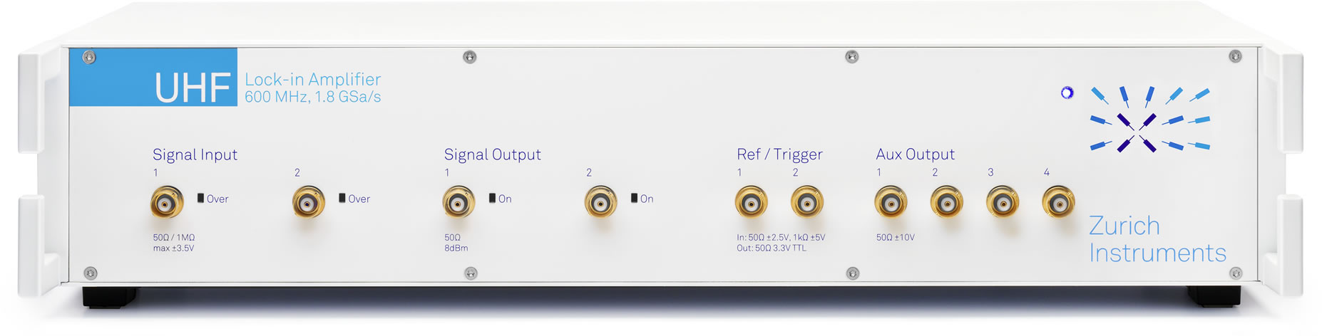 Picture of the Boxcar averager UHFLI manufactured by Zurich Instruments showing the front panel.